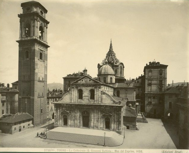 Giacomo Brogi (1822-1881) - "Turin. - The cathedral (San Giovanni Battista church), by Meo del Caprino, 1498)". Catalogue # 3758.